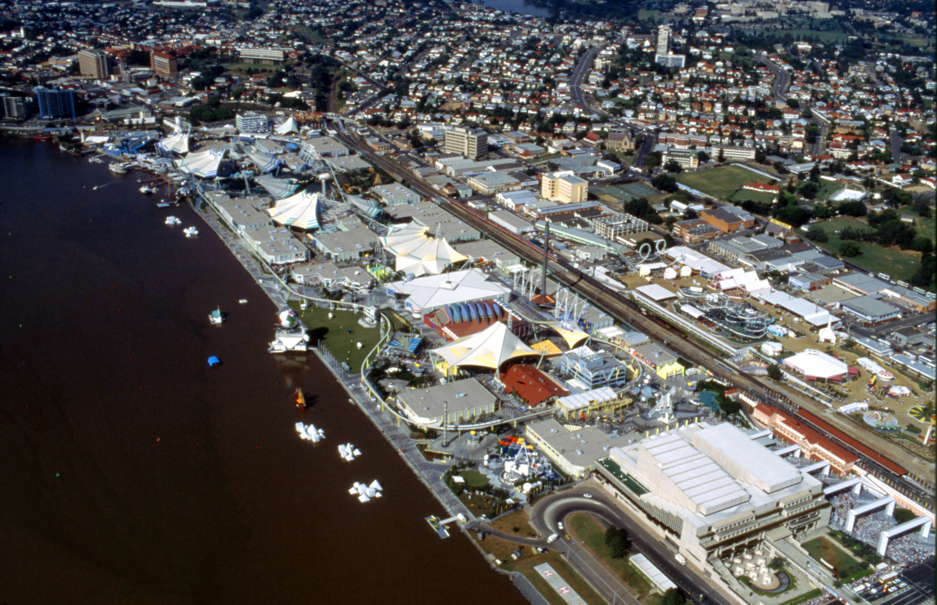 Aerial photograph of the Expo 88 site